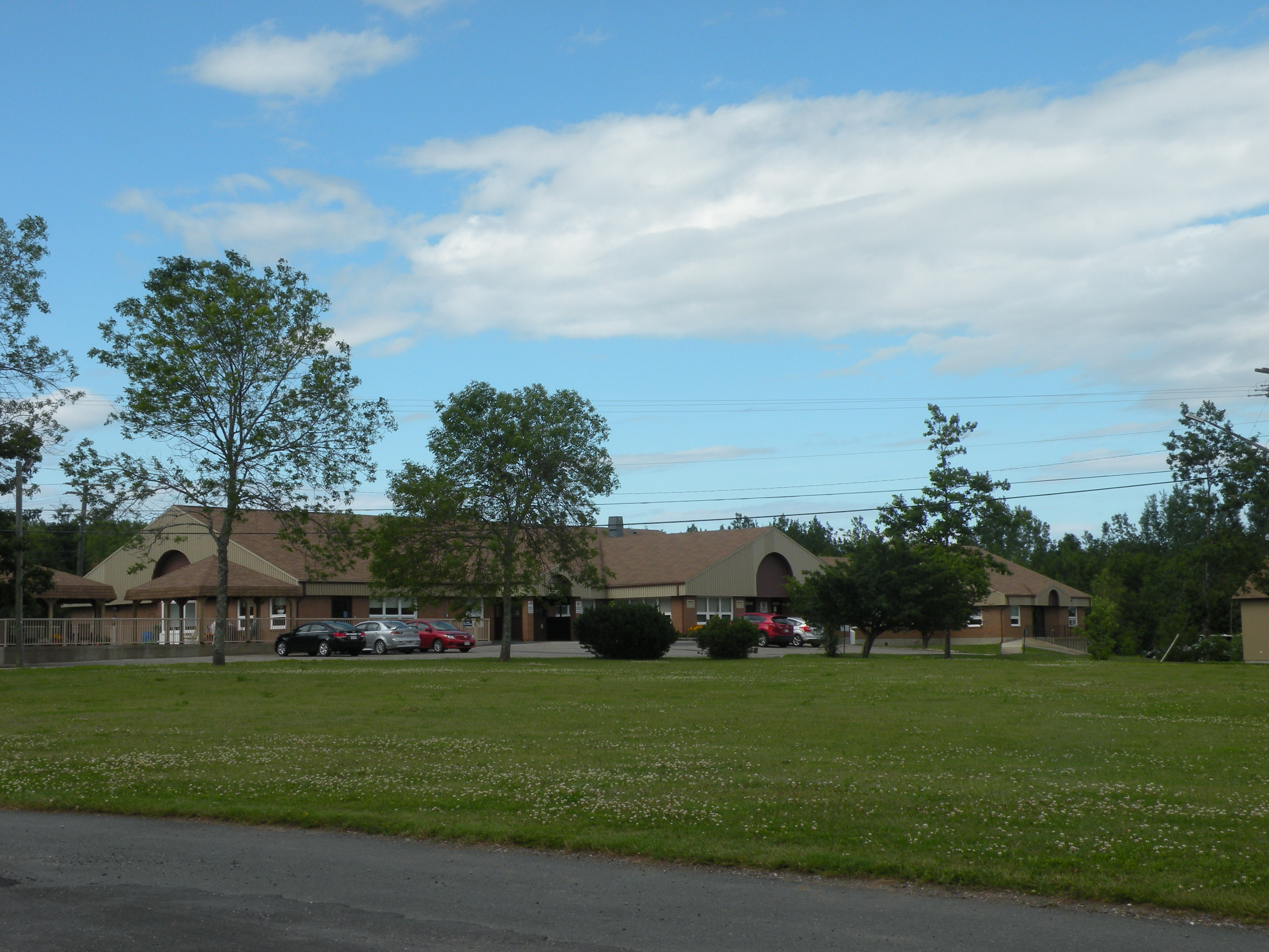 The Edith B. Pinet manor in Paquetville, New Brunswick, Canada.